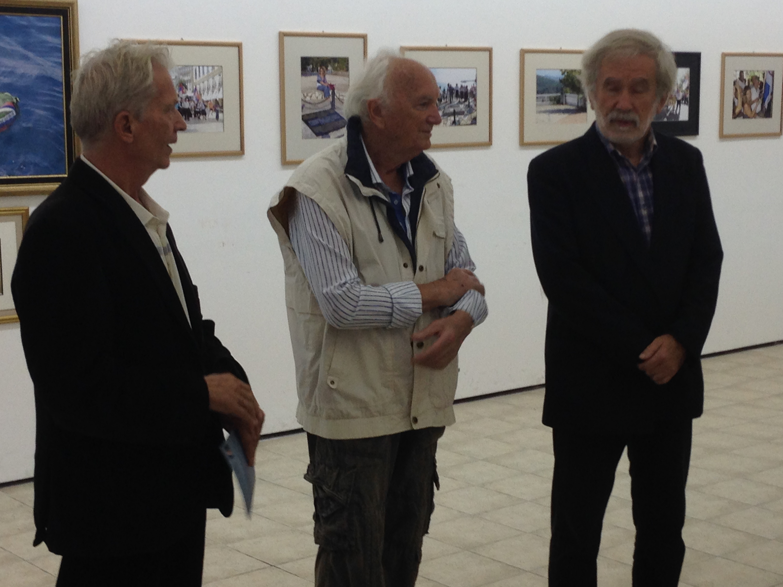 A private exhibition in Nis, Jovan Šurdilović, Master Photographer from Nis, Serbia